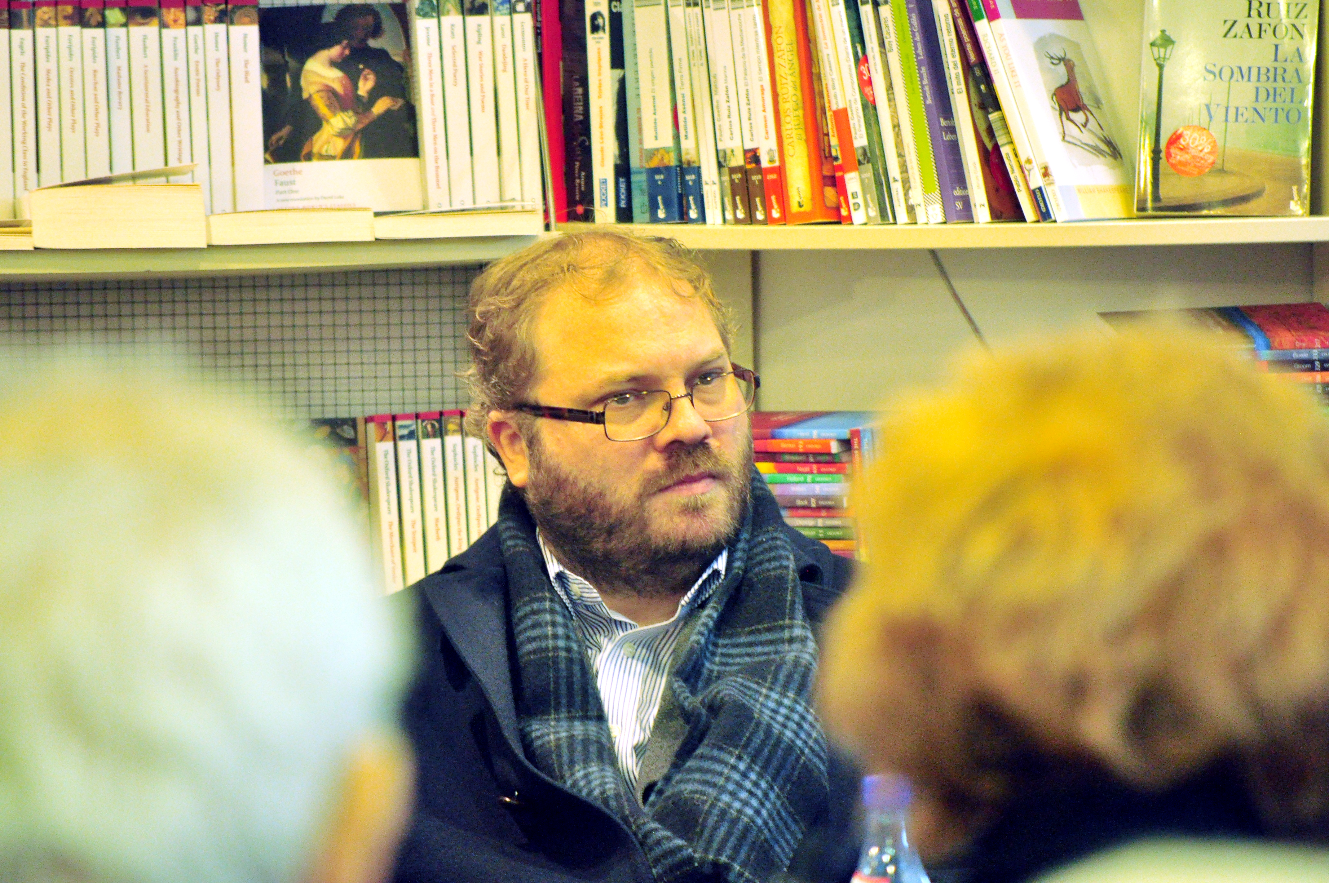 Radu Preda speaking at Humanitas bookstore, Calea Victoriei, Bucharest, Romania as part of panel „După 25 de ani. Dreptul la memorie” ("After 25 Years the Right to Memory").